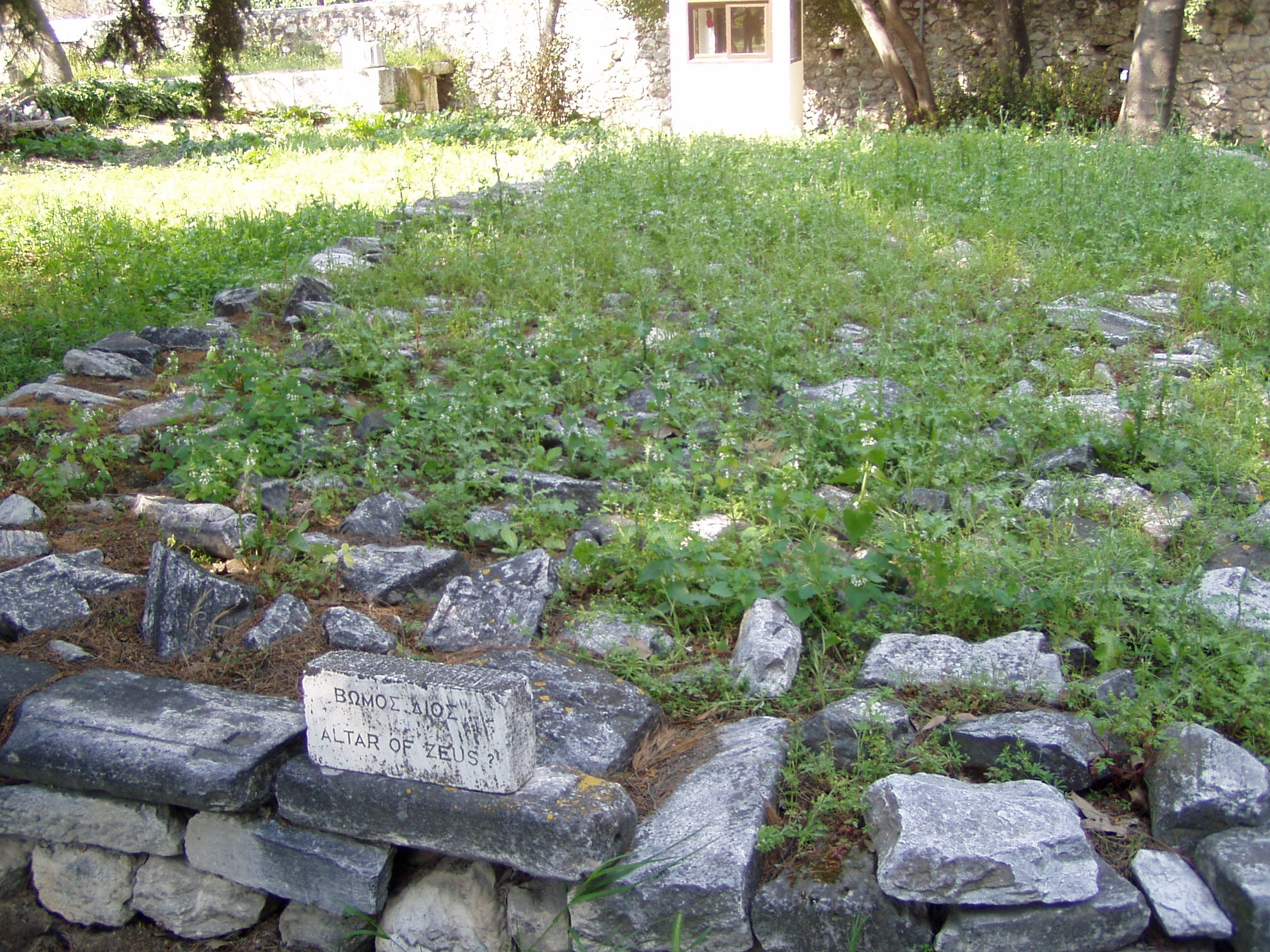 This is the altar of Zeus Eleutherios at the Ancient Agora of Athens, in front of Stoa of Zeus.